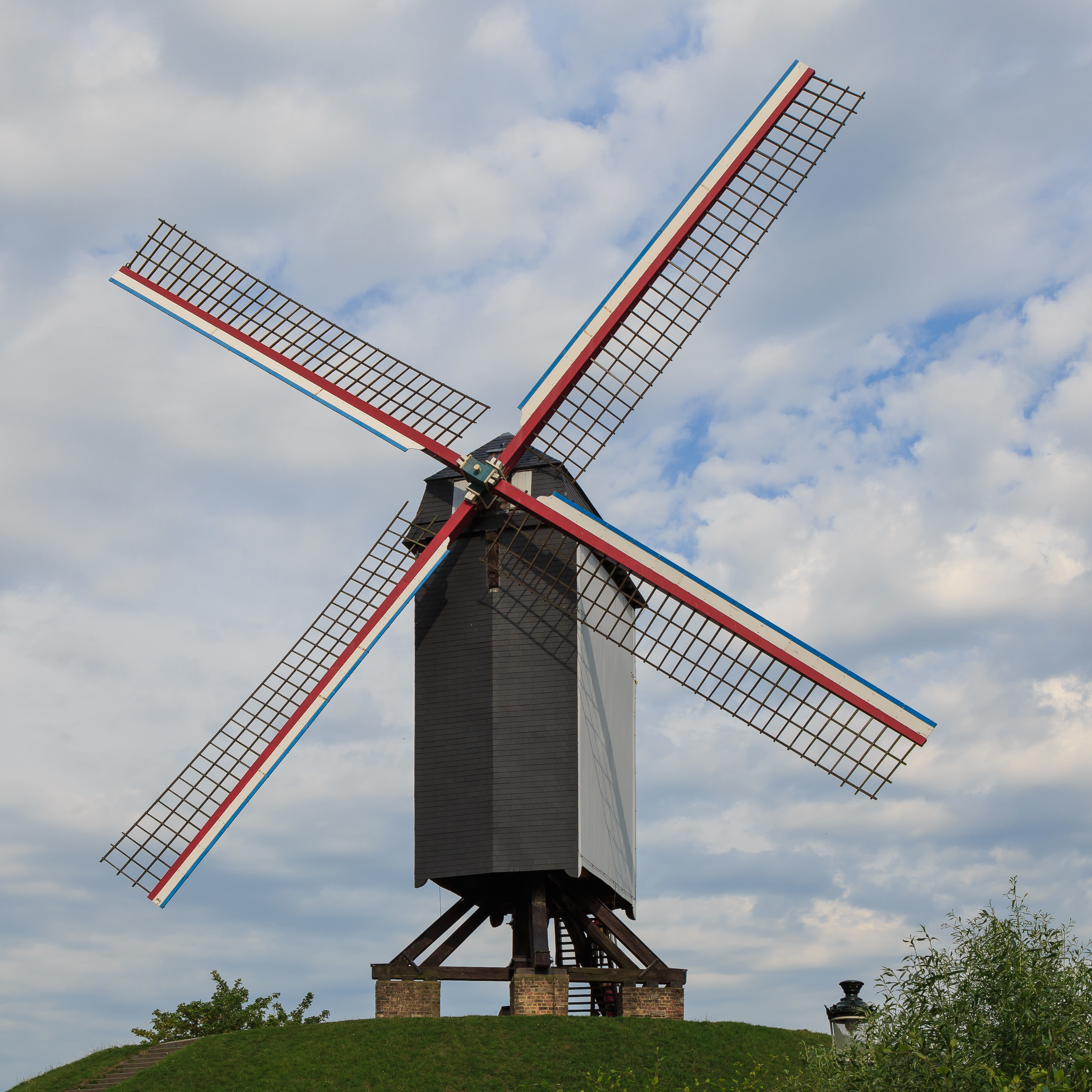 Bruges, Belgium: Windmill Bonne Chiere